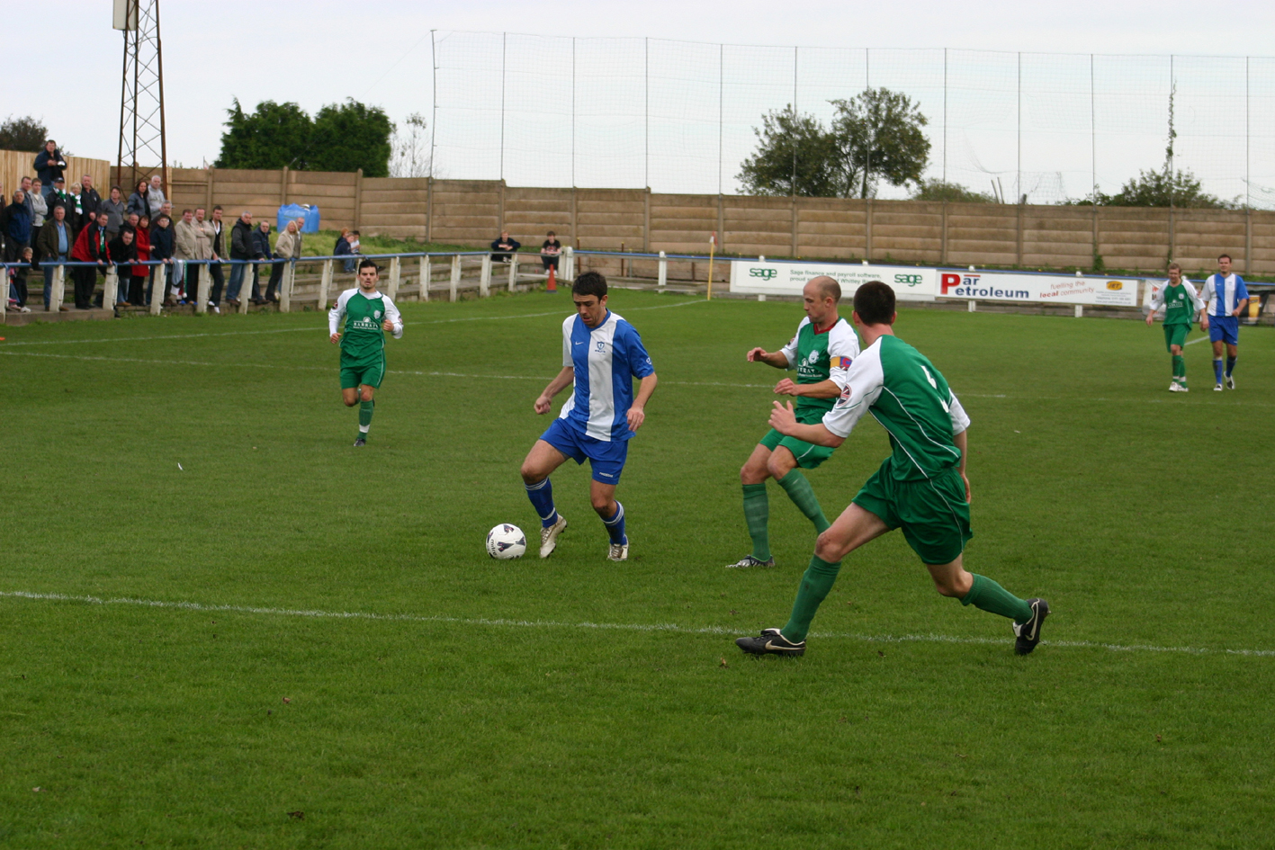 Paul Robinson is closed down by two Nantwich players